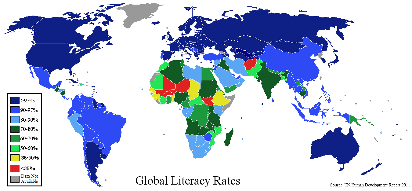 updated for uzbekistan